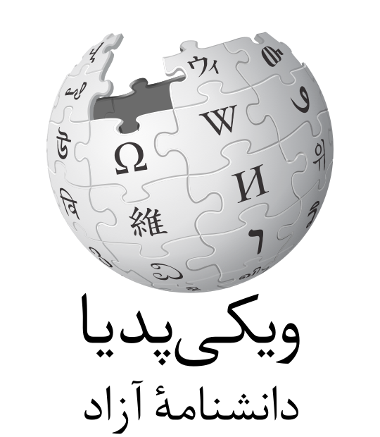 A logo for the Persian Wikipedia. Uses the Nazli font.